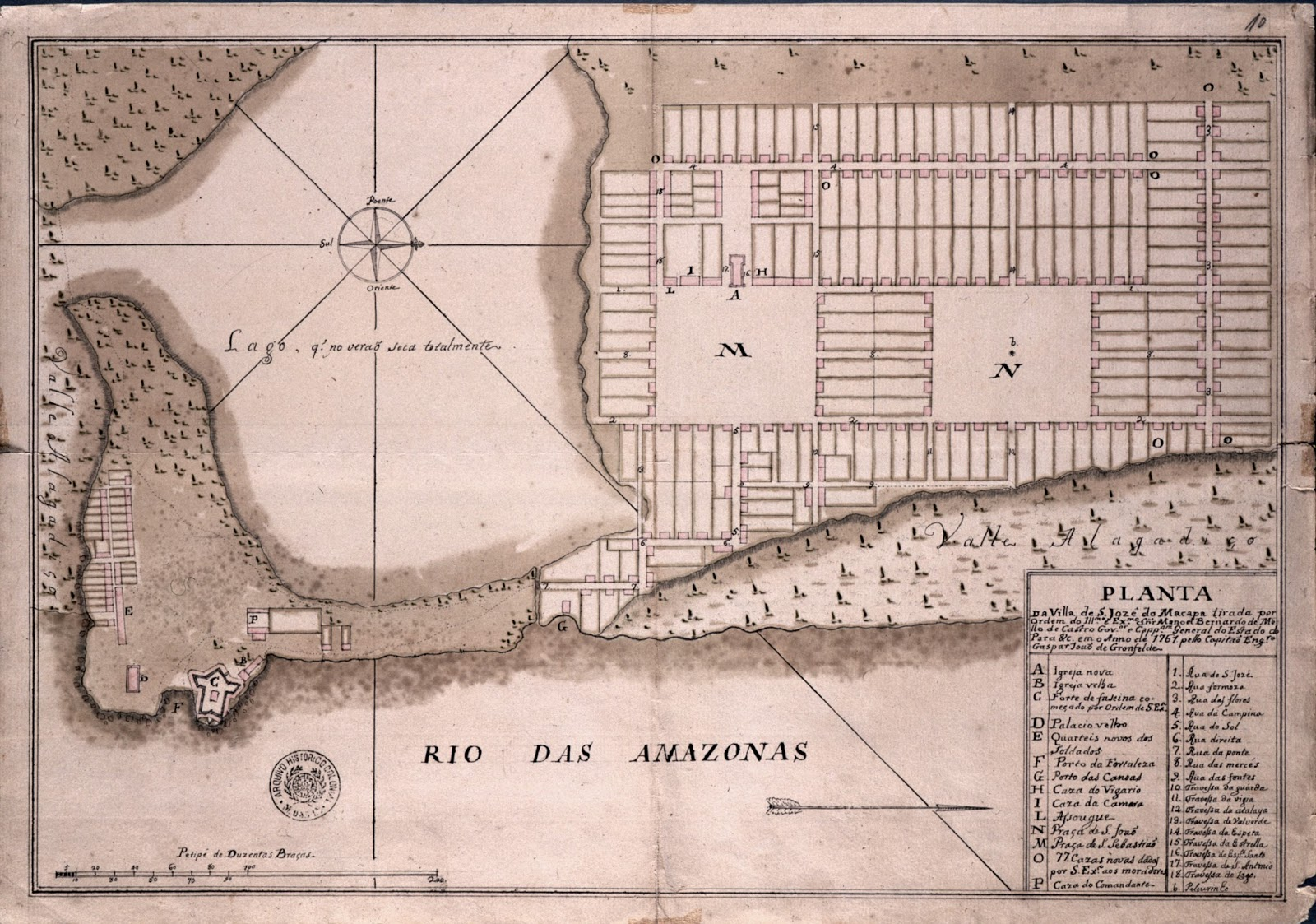 Plant of the village of São José de Macapá, created by the engineer Gaspar João de Gronfelde in 1761.